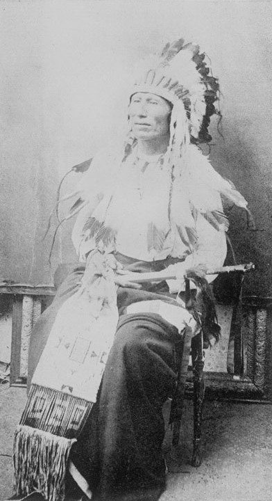 High Chief of the Northern Cheyenne; full-length, seated. Halftone of photograph.